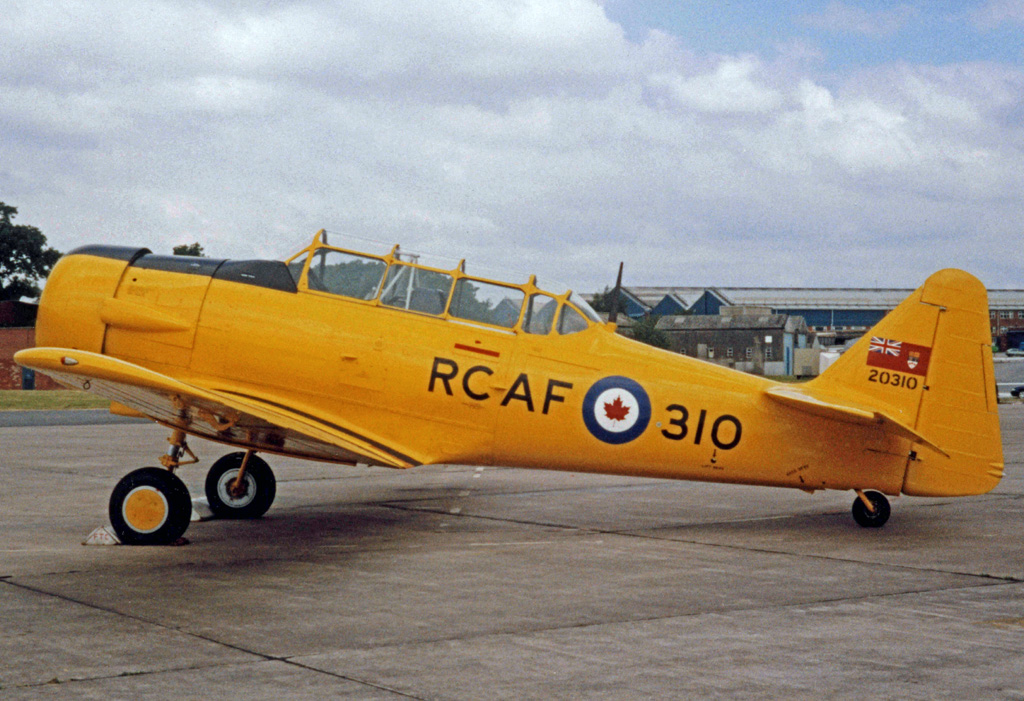 North American AT-6 (T-6J) built by Canadian Car & Foundry in Canada